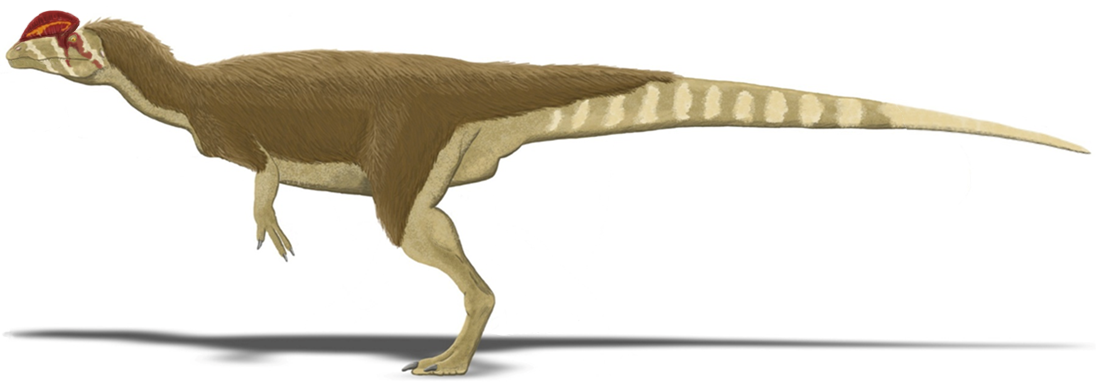 Dilophosaurus wetherilli. Reprinted from original, previously-unpublished artwork by Leandra Walters under a CC BY license, with permission from Leandra Walters, original copyright 2015.